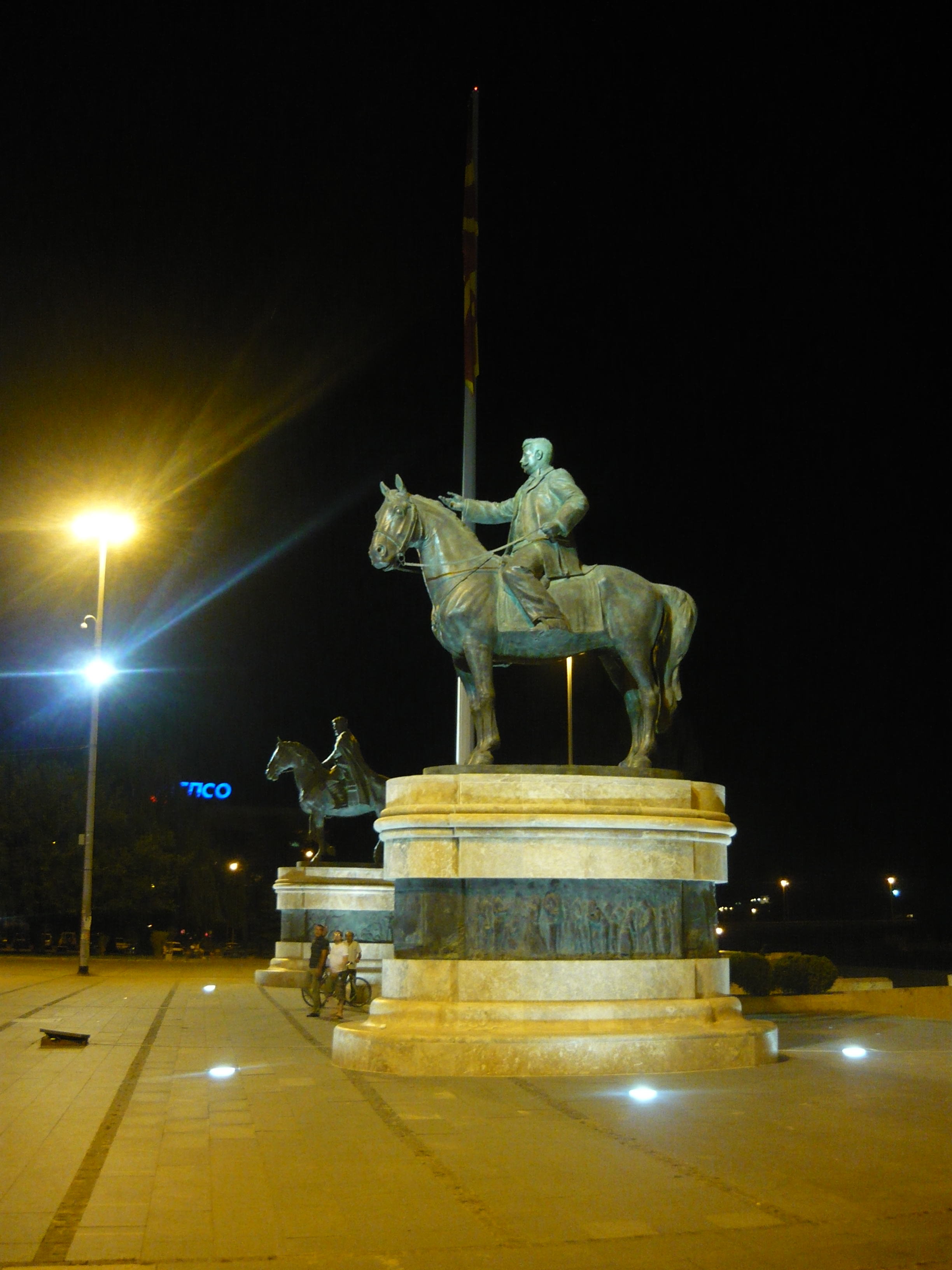 Monuments of Bulgarian revolutionaries Goce Delcev and Dame Gruev on Macedonia Square in Skopje, Republic of Macedonia